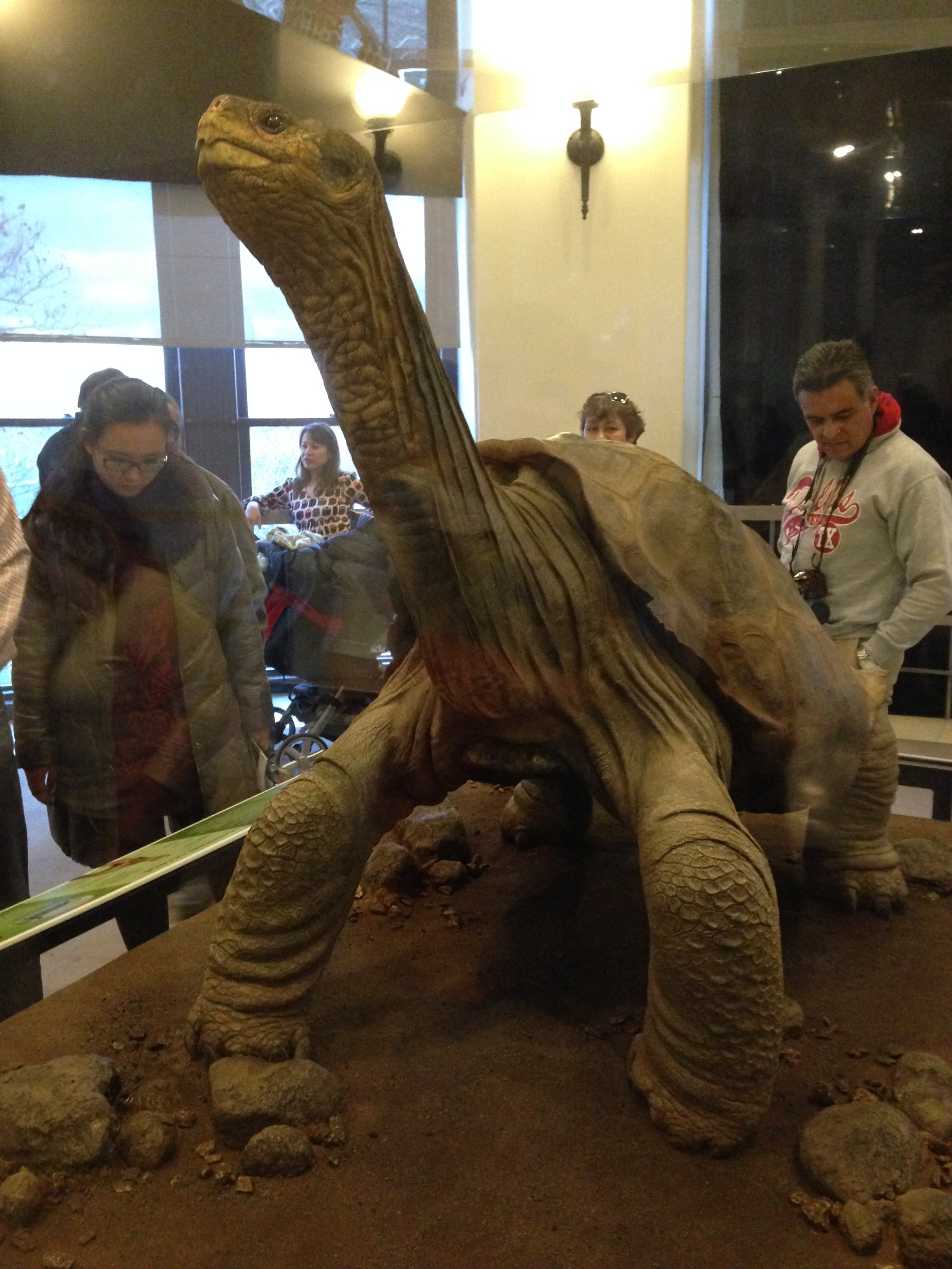 Lonesome George, the last known creature of the Pinta Island tortoise species, was preserved by taxidermists at the American Museum of Natural History after his death. The picture shows him on display at the museum in December 2014.